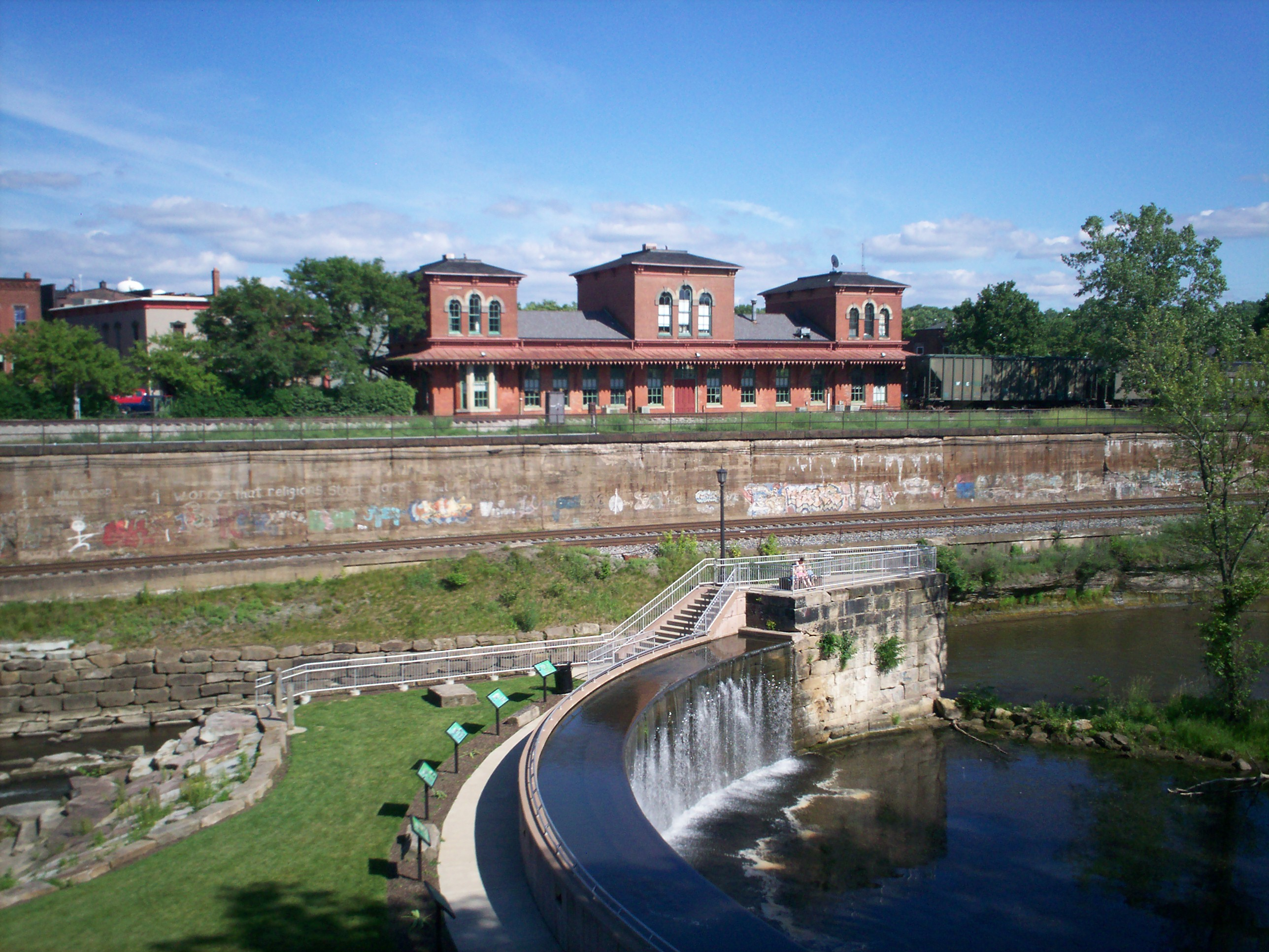 Photo showing part of the Kent Industrial District in Kent, Ohio. The former Atlantic and Great Western Railroad depot (1875) can be seen at the top with the former Pennsylvania and Ohio Canal lock and dam (1836) seen below. The Cuyahoga River now runs through the former lock and water is artificially pumped over the dam. Behind the dam is Heritage Park, opened in 2005.